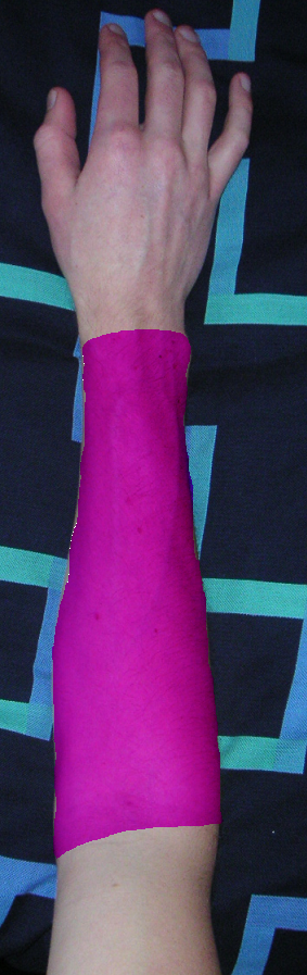 Adaption of Image:Forearm.jpg